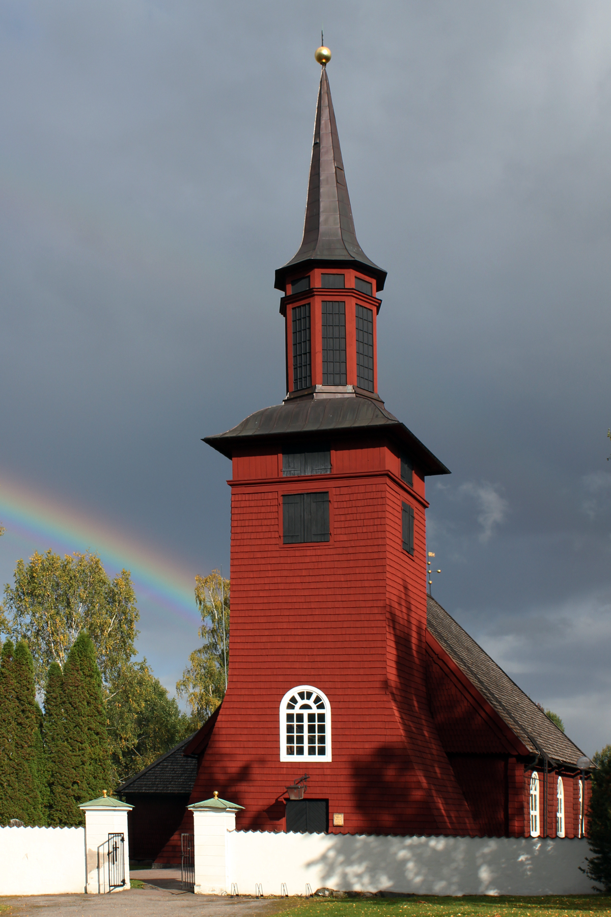 Hosjö kyrka, main church for Hosjö parish, Church of Sweden. Hosjö, Falun Municipality, Sweden.